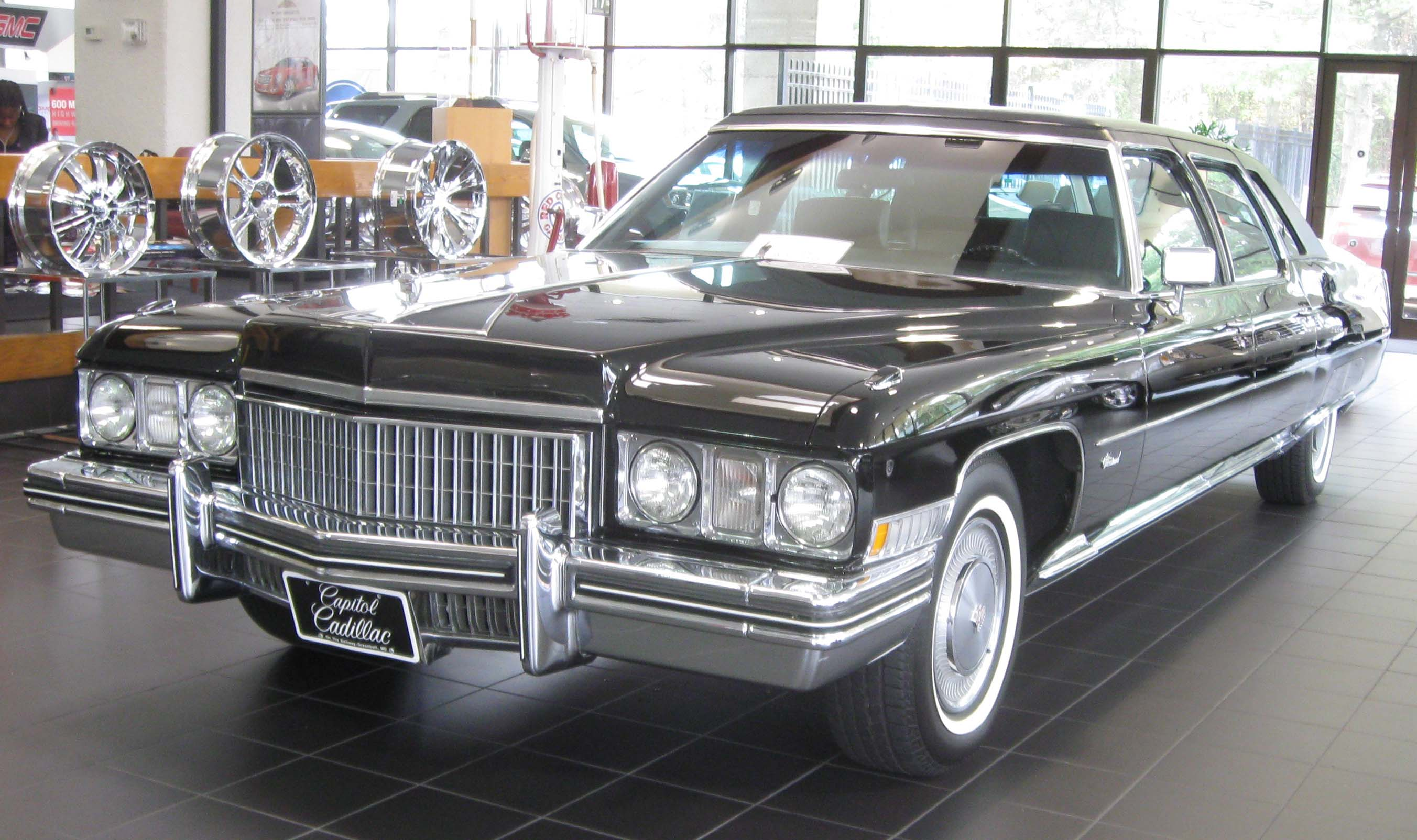 1973 Cadillac Fleetwood limousine photographed in Greenbelt, Maryland, USA.